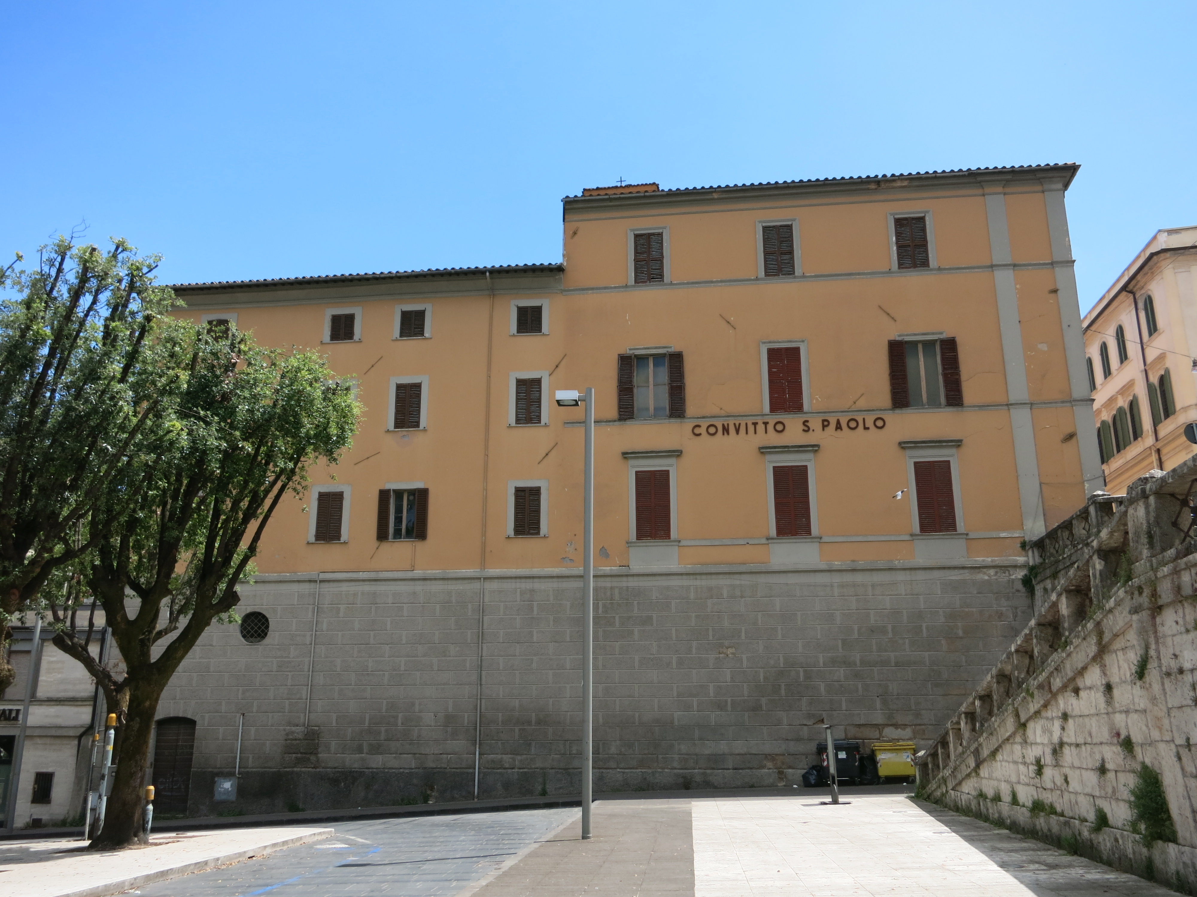 Saint Paul church and boarding school - Rieti, Lazio, Italy